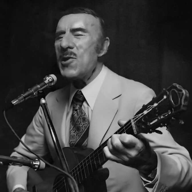 Argentine tango singer, Edmundo Rivero, performing live.